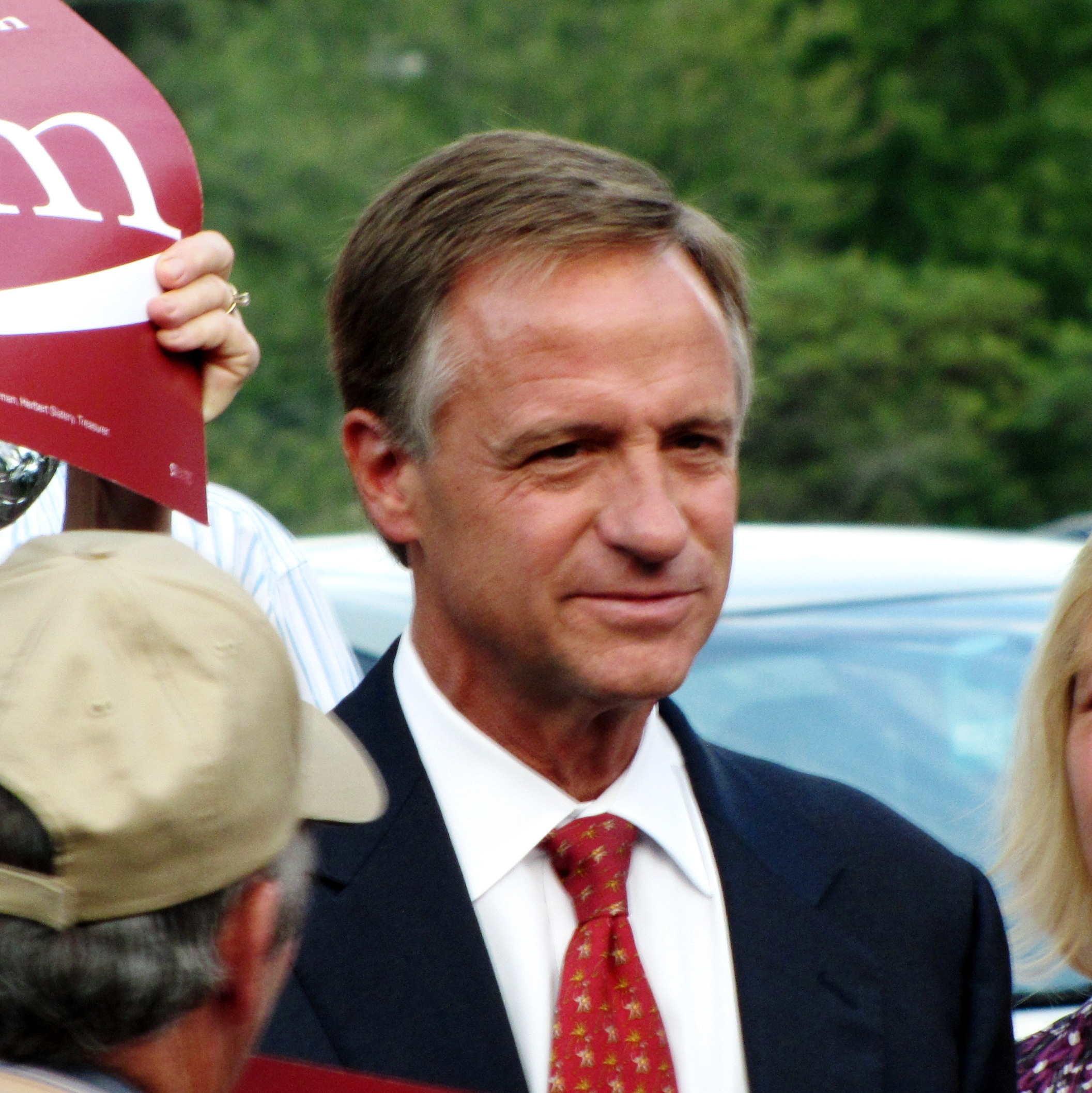 Knoxville mayor and Tennessee GOP gubernatorial candidate Bill Haslam addressing supporters before the Highlands Town Hall Debate at Tennessee Tech University.